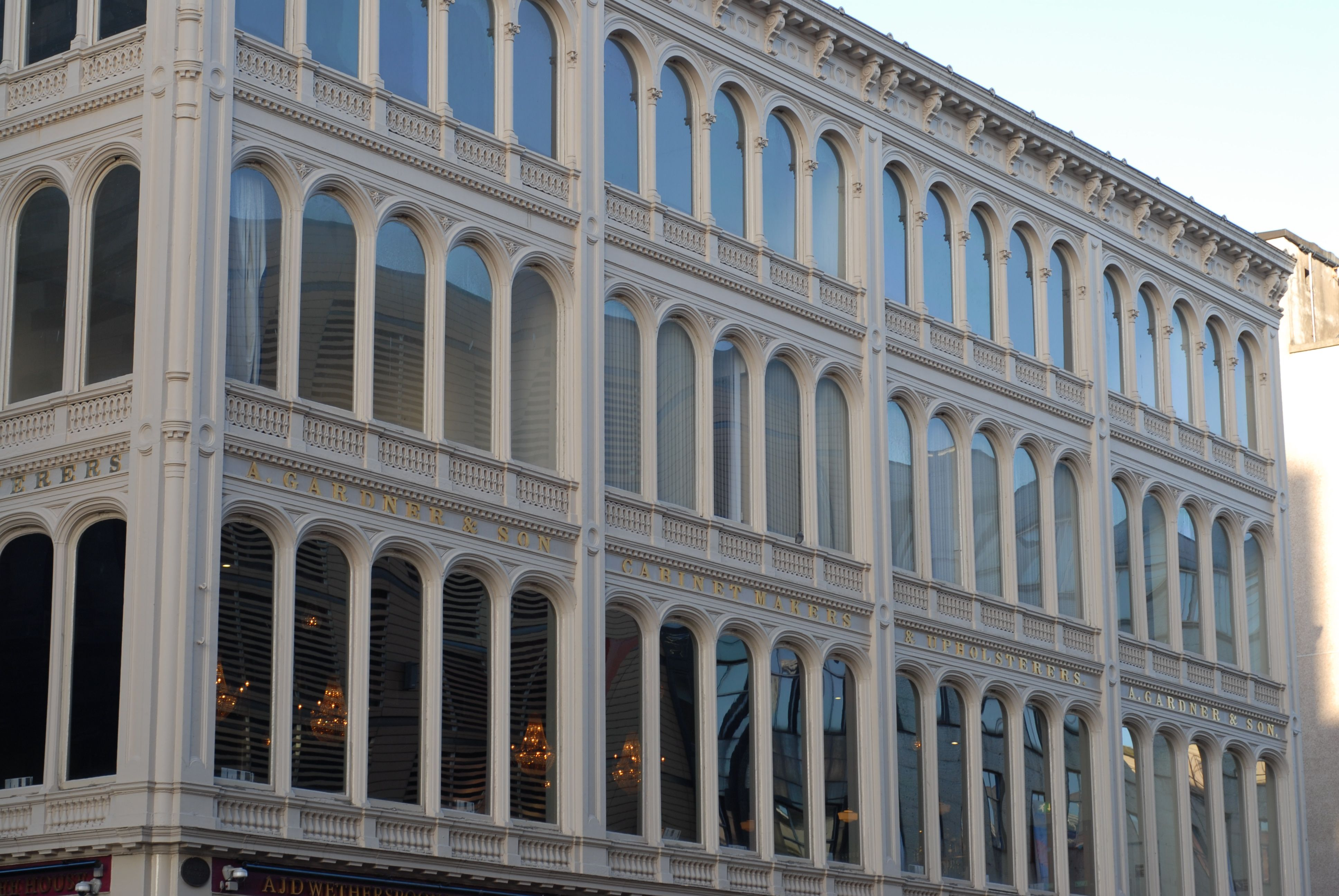 Gardner's Warehouse, Jamaica Street Glasgow. John Baird, architect, 1855-6.